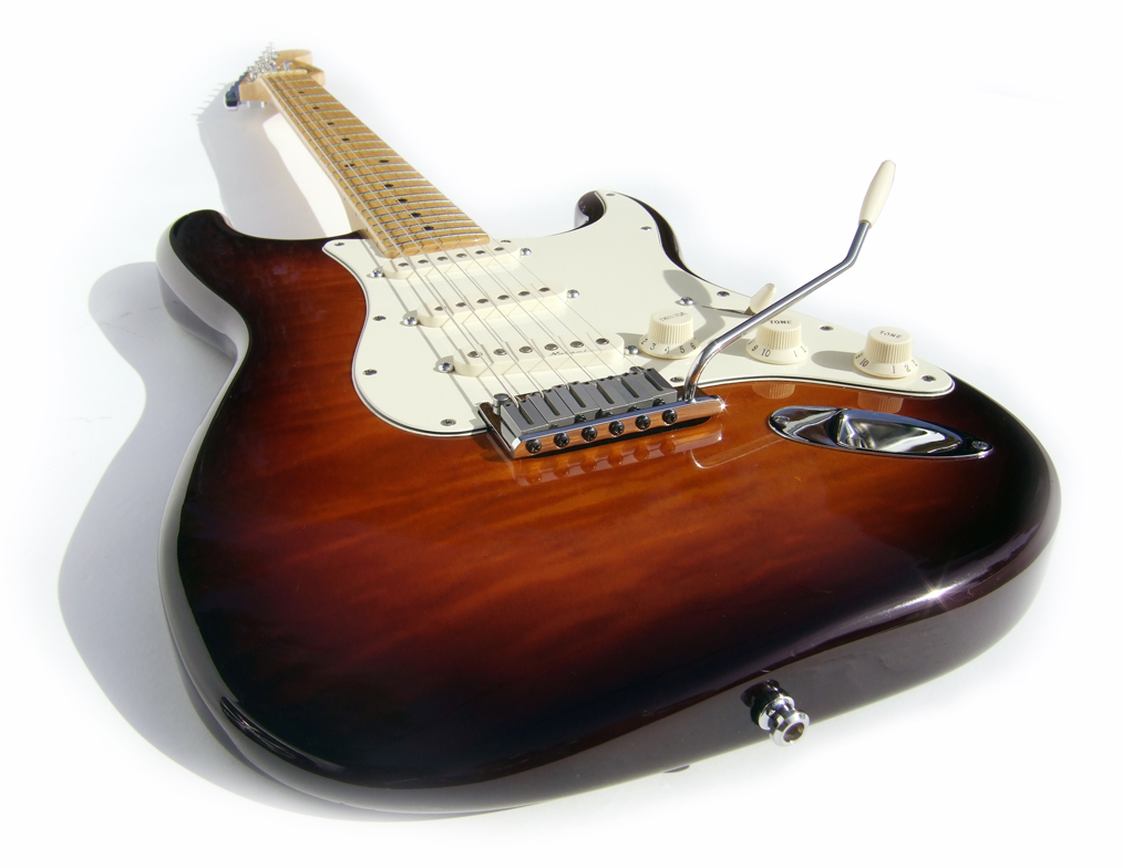 Fender American Stratocaster